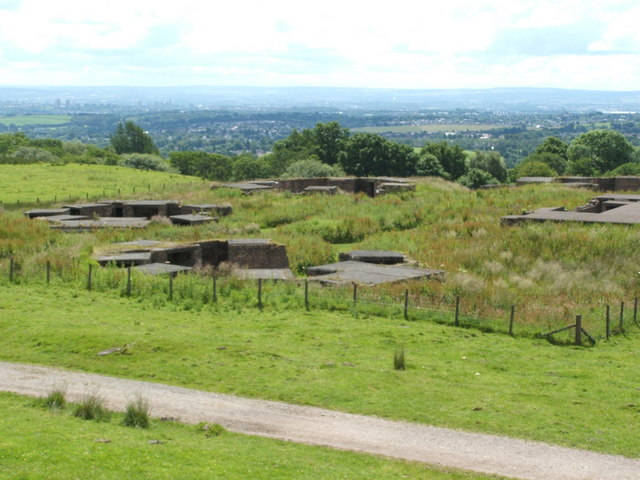 Anti-aircraft gun emplacement N9 This was one of many anti-aircraft batteries built in order to protect the Clyde Basin, including factories engaged in war production, the city of Glasgow, and the town of Clydebank (over two nights, the 13th and 14th of March, 1941, Clydebank had been blitzed: it suffered the worst destruction and loss of civilian life in Scotland). The gunsite shown here was designated N9, and, had it been used, it would have been manned by the 12th Anti-Aircraft Division; it was built in the period from September 1941 to the early spring of 1942. In such batteries, men operated the guns, while women operated the associated predictors, height-finders, and radar. However, this particular emplacement was never used, and guns and radar were never installed here. See also: 916370 and 1788683.